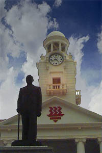 The statue of Tan Kah Kee stands tall in front of the tower block.